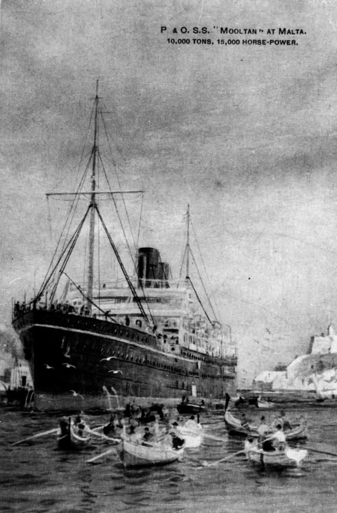 Mooltan (ship) Caption on photo: P.&O. S.S. Mooltan at Malta. 10,000 tons, 15,000 horse-power. Painting by W. Wyllie.